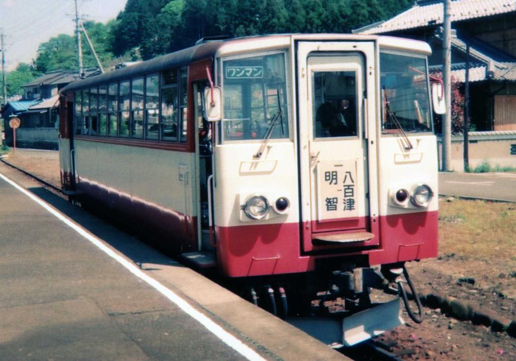 Nagoya Railroad DMU type Kiha-10 At Yaotsu Sta.